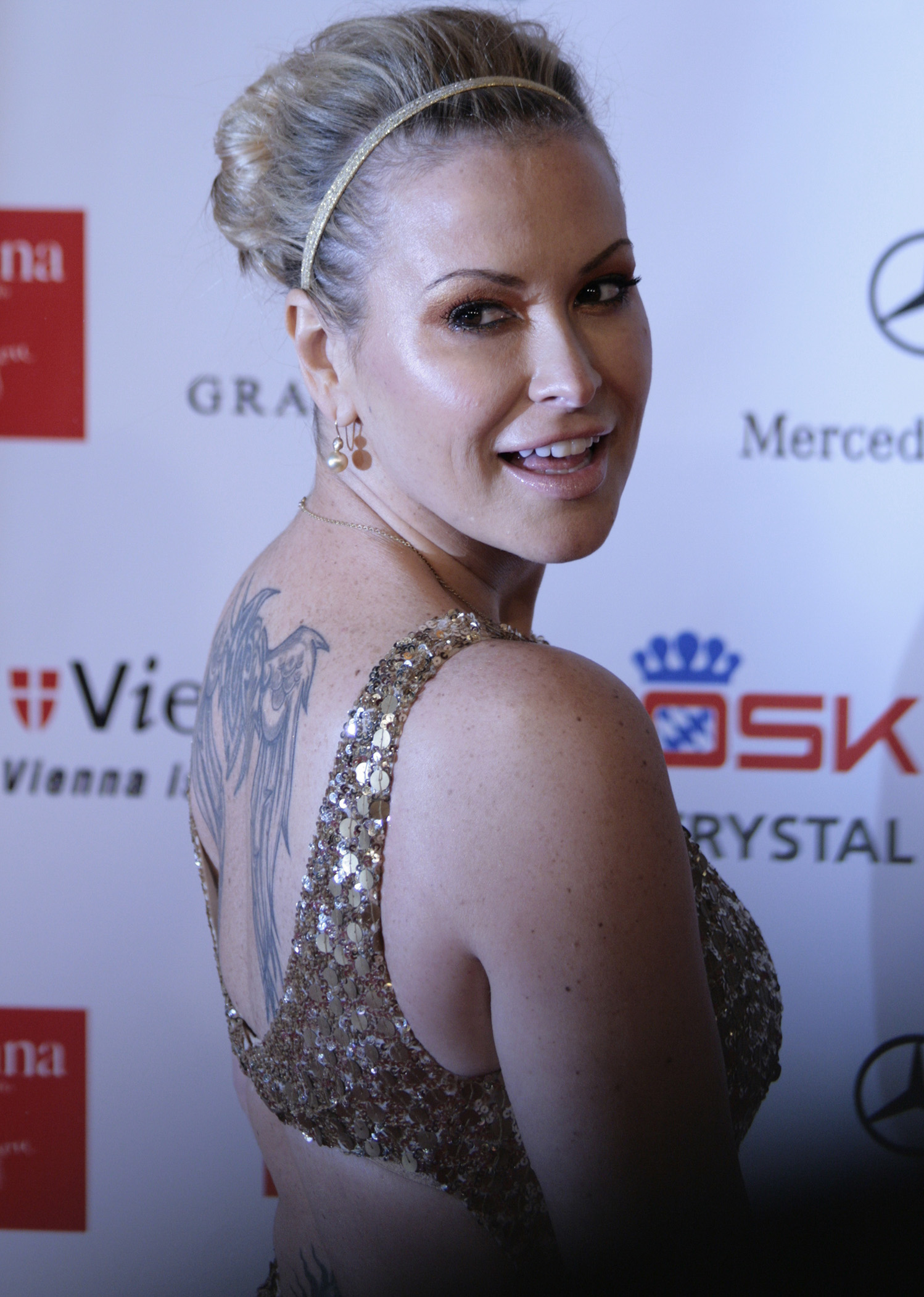 Singer Anastacia at the Women's World Award 2009 (Wiener Stadthalle, Vienna, Austria) where she recieved the 'World Artist Award'.